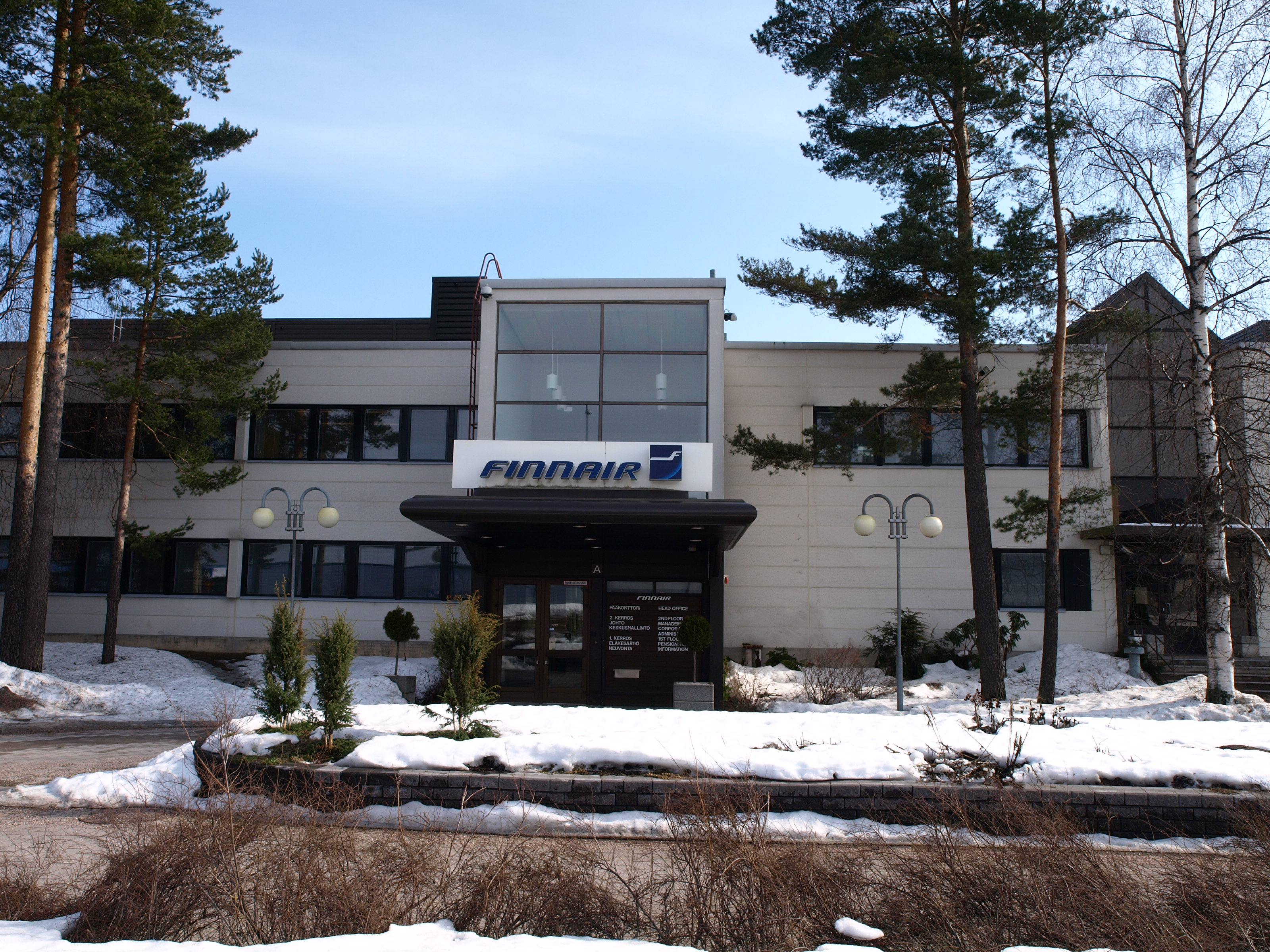 Finnair former head office (Tietotie 11, Vantaa, Finland)